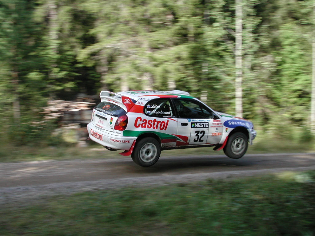 Jouni Ahvenlammi at the 2001 Rally Finland.